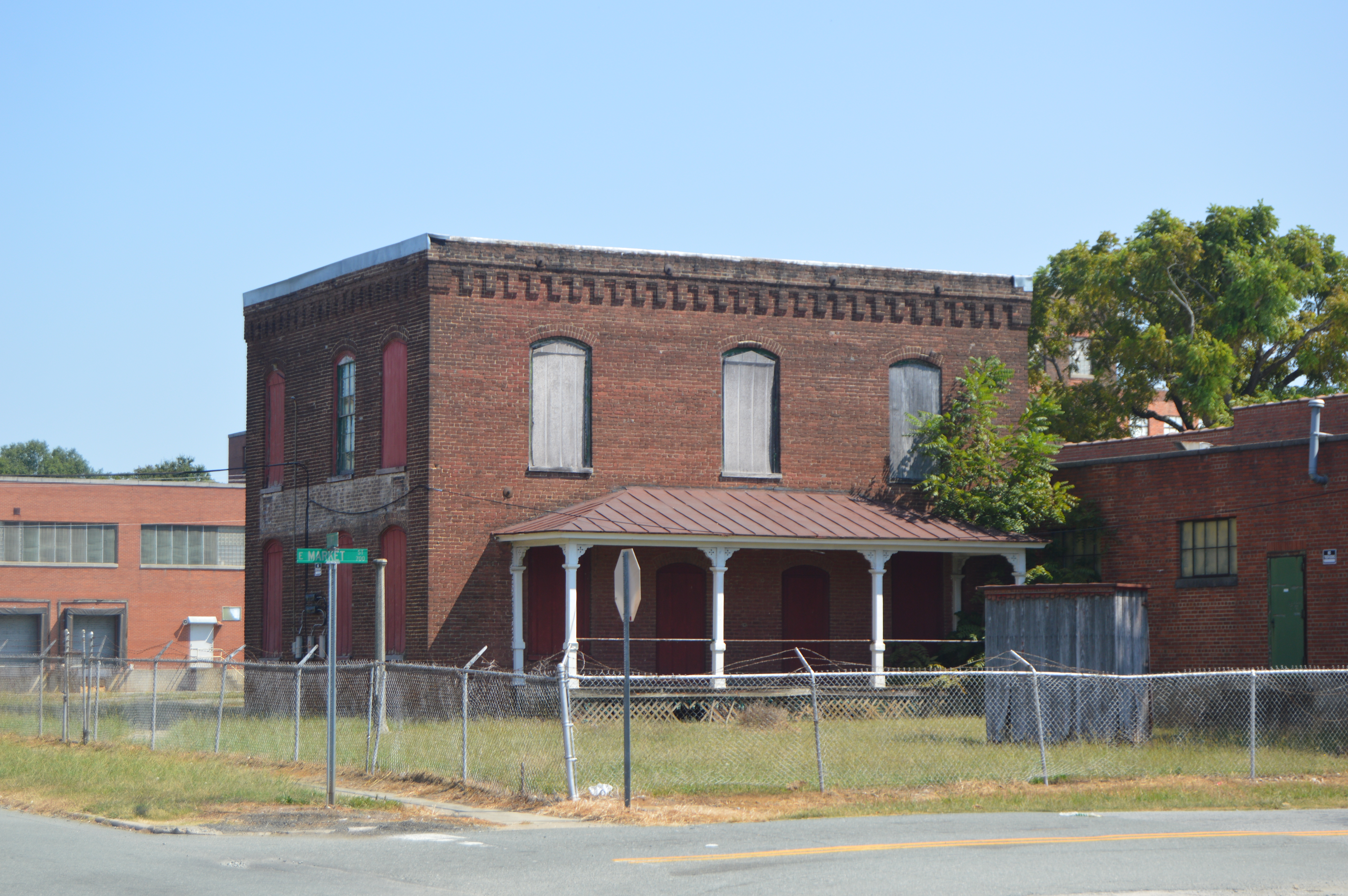 Street view from the west of the Windsor Cotton Mills Office, located at the intersection of Market and Gilmer Streets in Burlington, North Carolina, United States. Built in 1890, it is listed on the National Register of Historic Places.